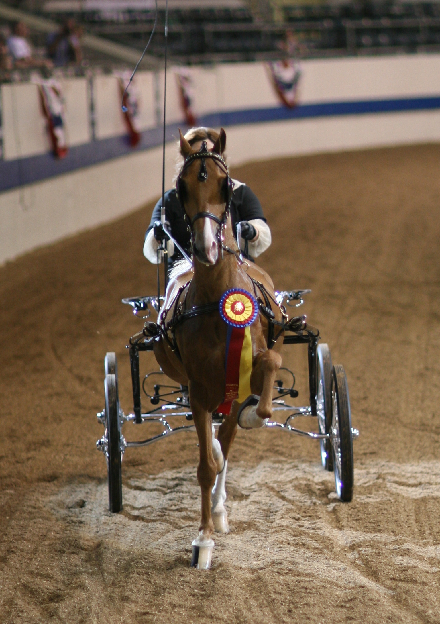 An example of a chestnut hackney cobtail pony showing at the 2007 All American Classic Horse Show in Indianapolis, Indiana, on 7 September, 2007.